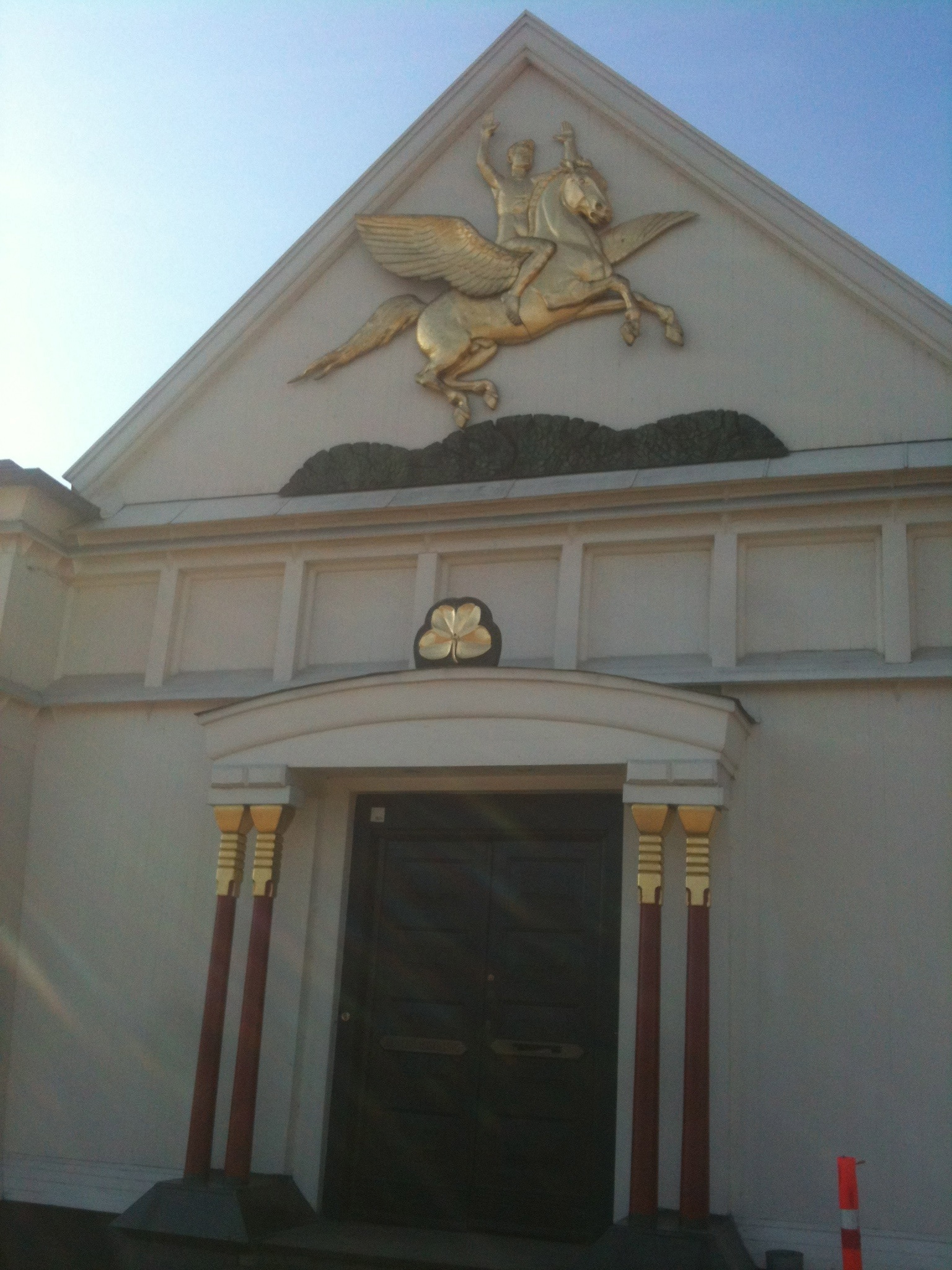 Den Frie Udstillingsbygning - Main entranceDansk: Den Frie Udstillingsbygning - hovedindgangen